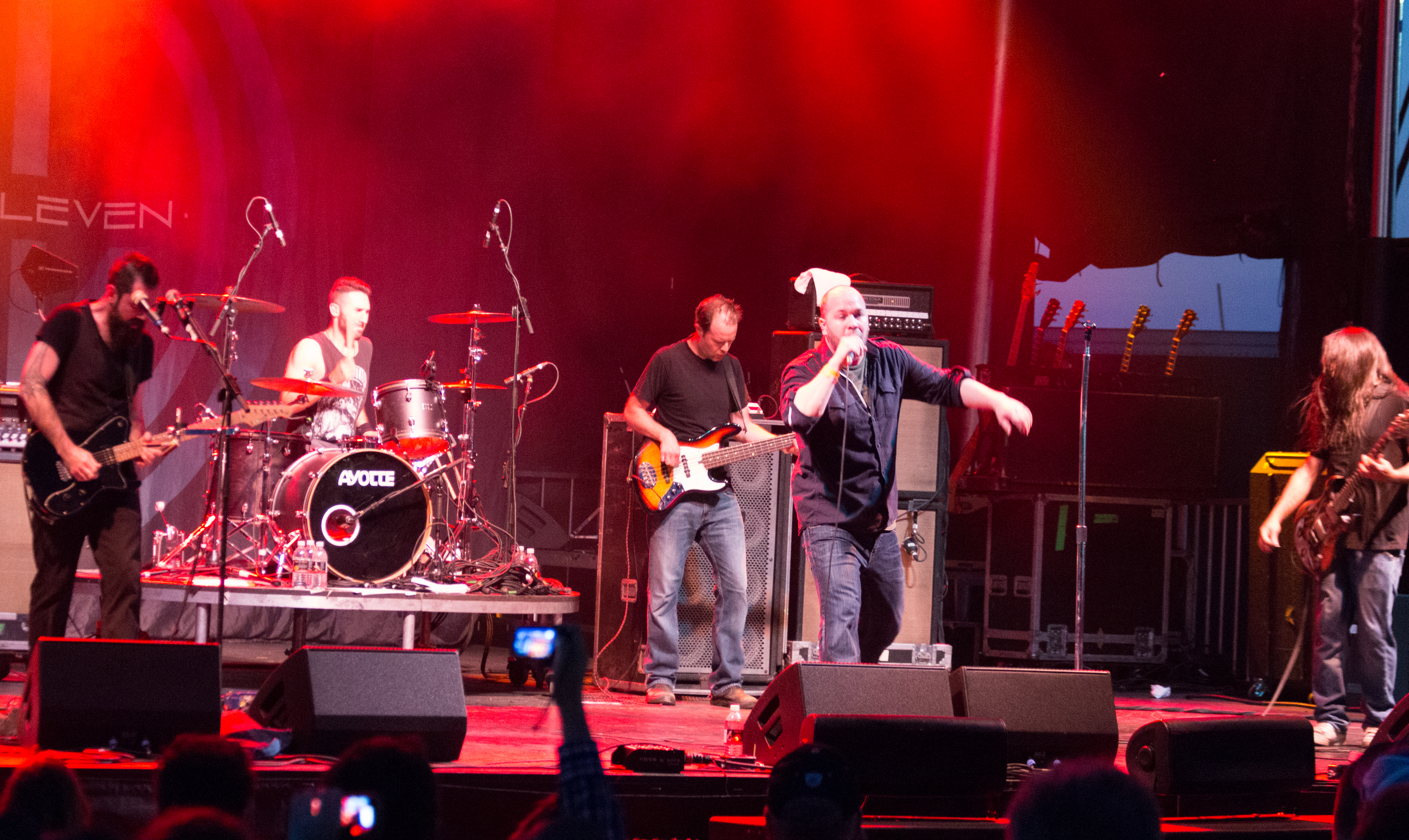 Finger Eleven at the Hamilton Festival of Friends at the Ancaster Fairgrounds